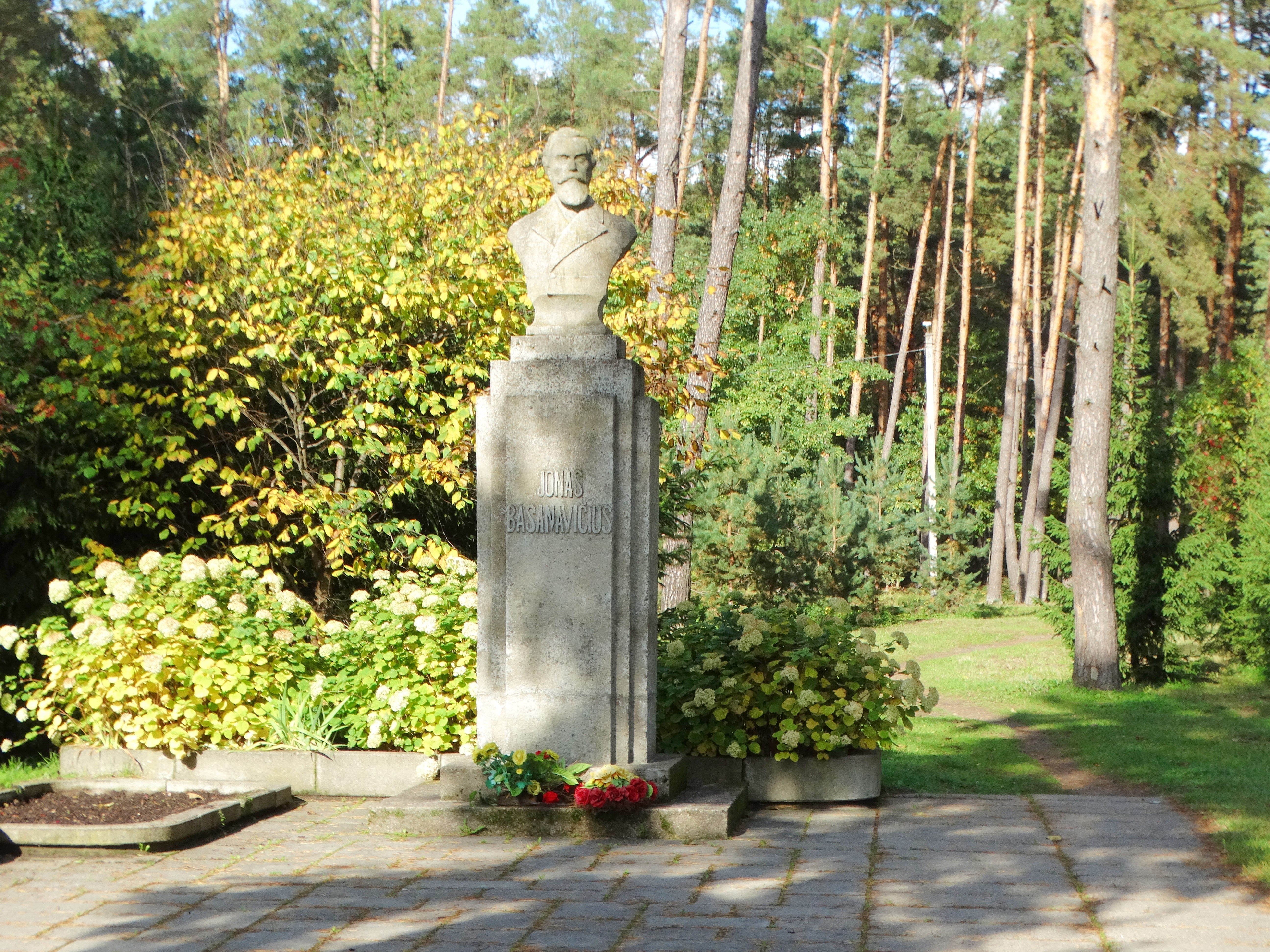 Basanavičius, Panemunė (Kaunas), Lithuania